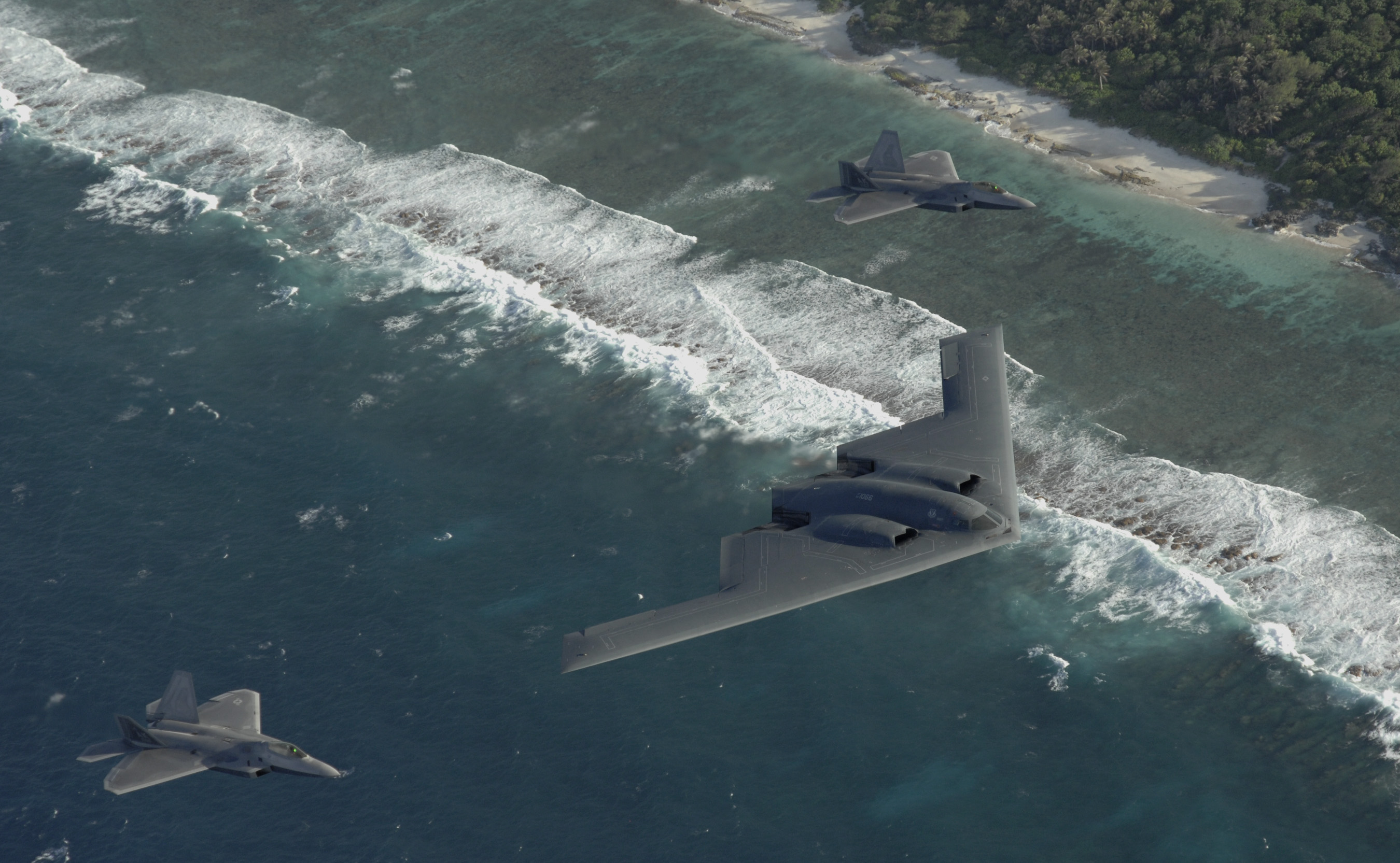 Two F-22 Raptors and a B-2 Spirit bomber deployed to Andersen Air Force Base, Guam, fly in formation over the Pacific Ocean. The deployment to Andersen marks the first time F-22s and B-2s, the key strategic stealth assets in the Air Force inventory, deployed together outside the continental United States.